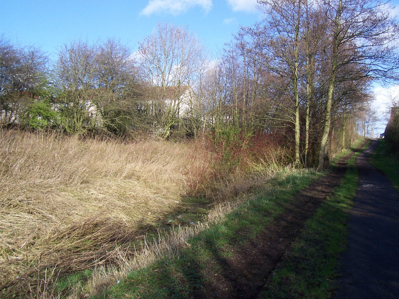 The site of Springside railway station in March 2007. The trackbed is now part of National Cycle Network 73 running from Irvine to Kilmarnock. Photo by Dreamer84.